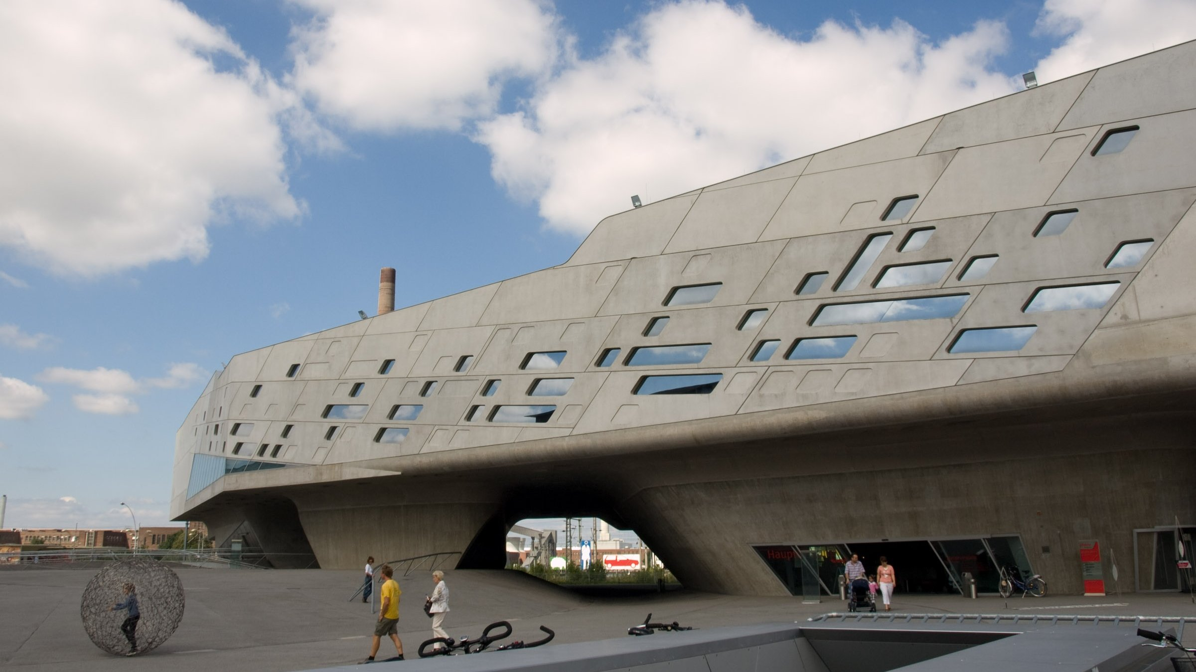 The Phaeno in Wolfsburg (building)